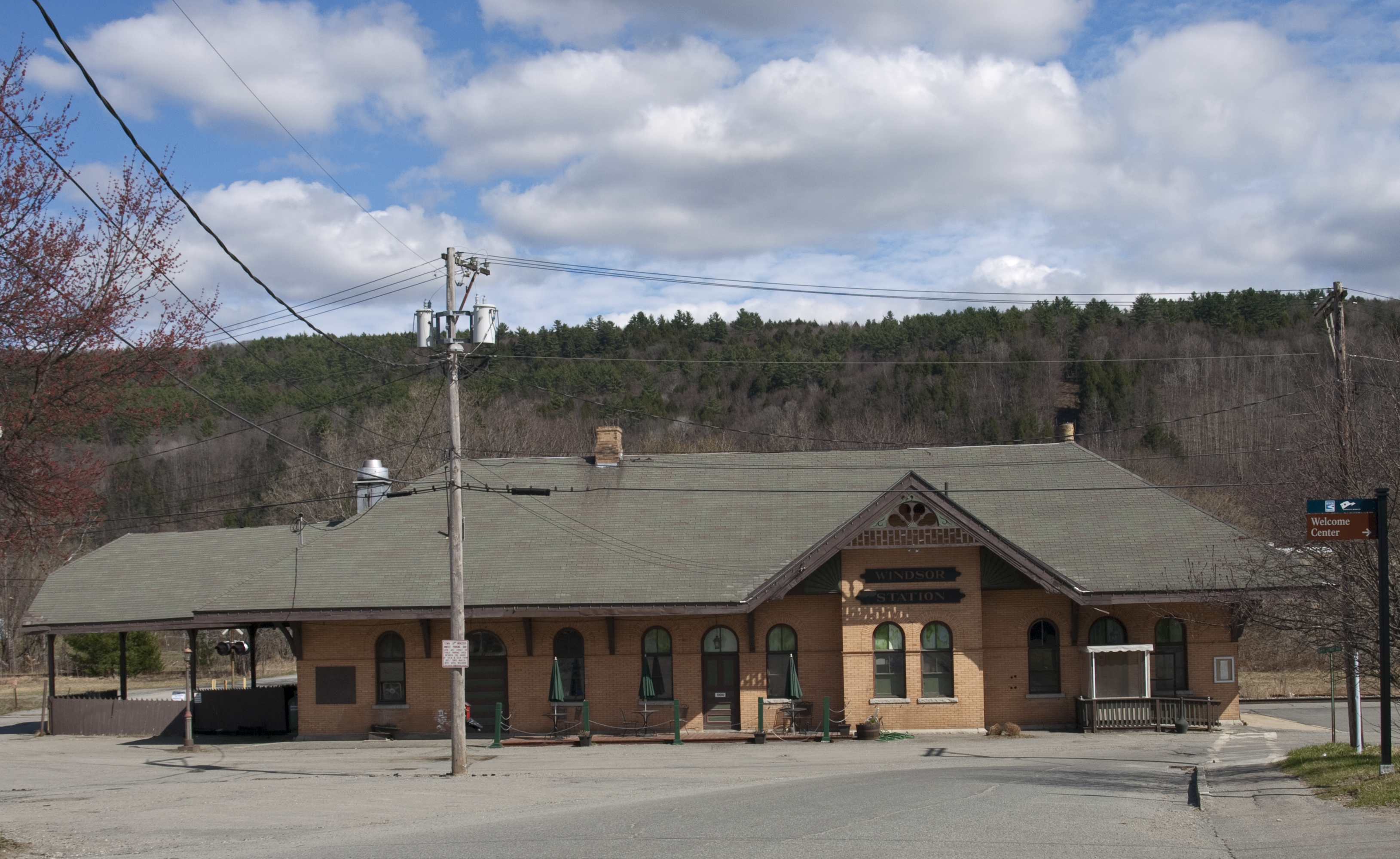 Winsdor, VT, Railway Station